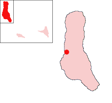 N'Tsoudjini, Grande Comore, Comoros Location Map; created with the GIMP. Made by User:Acntx.